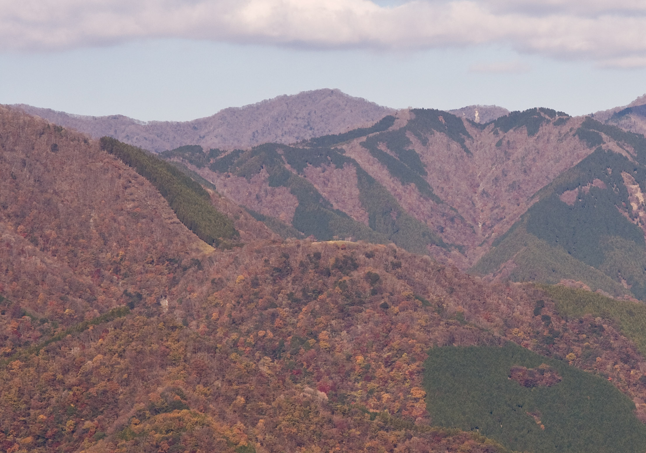 Mt.Daikaigi seen from the summit of Mt.Oono, Tanzawa Mountains, Honshu, Japan.